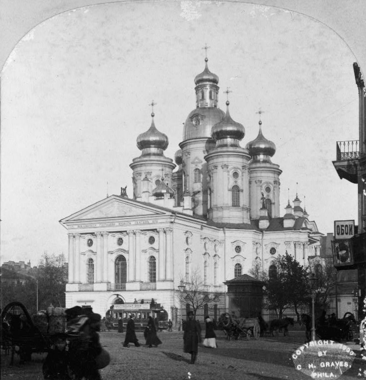 Vladimirskaya Church in 1900. 1 photographic print on stereo card : stereograph.